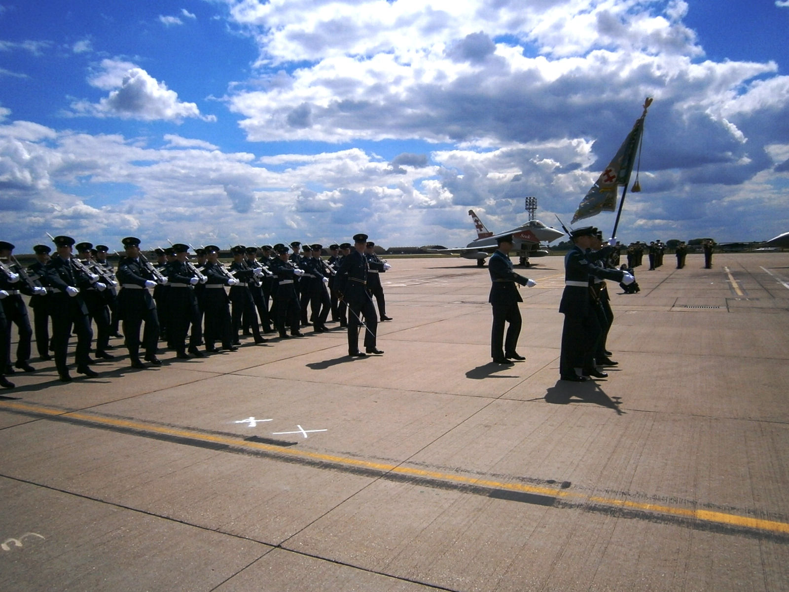 41 Squadron Centenary Parade march past with Standard